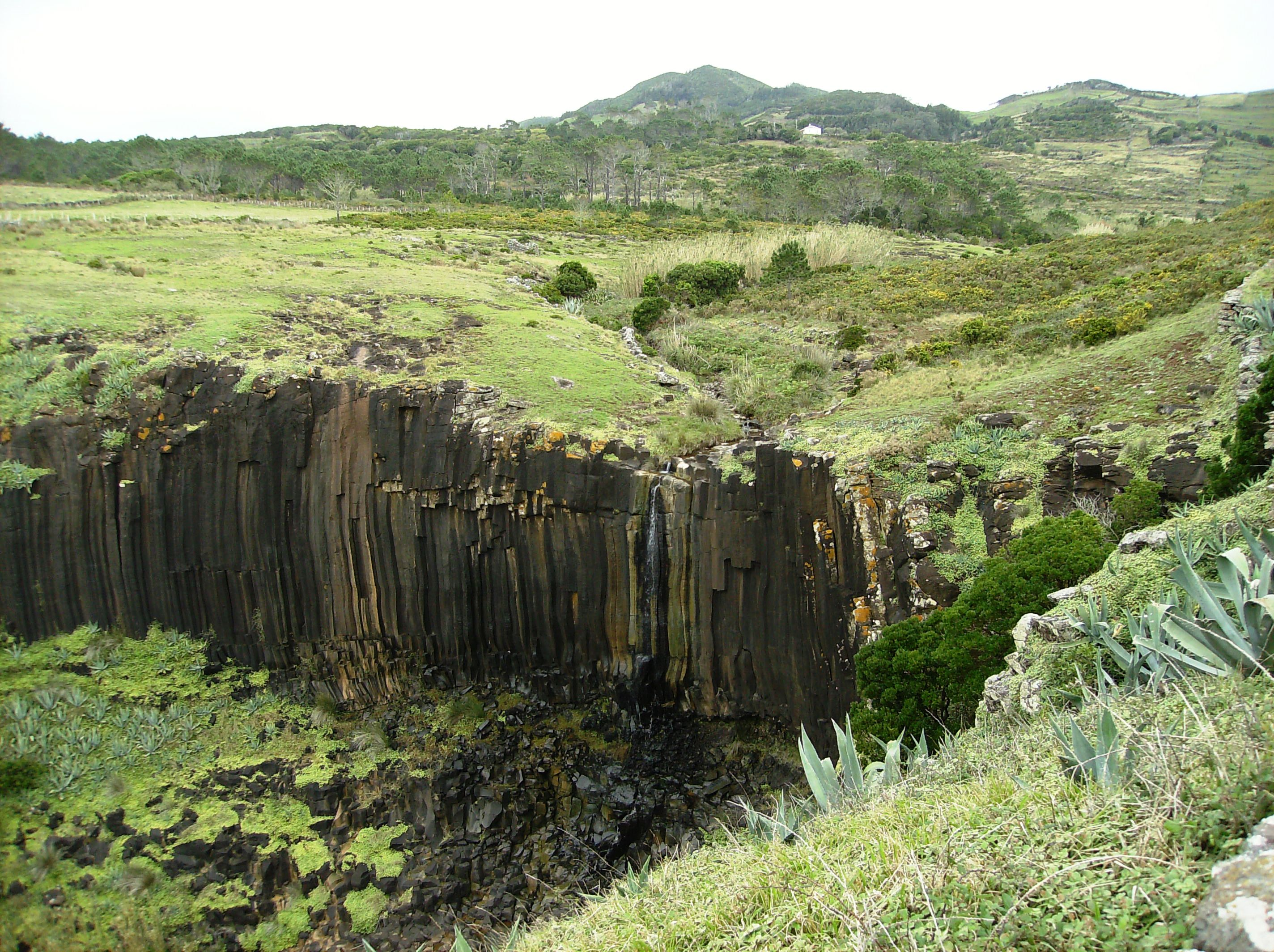 Basaltic prisms, Ribeira dos Maloás, Malbusca de Baixo, parish of Santo Espírito, Vila do Porto, Santa Maria (Azores), Portugal